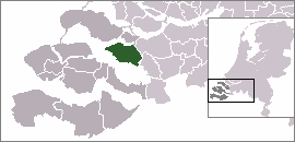 Location of the island Tholen